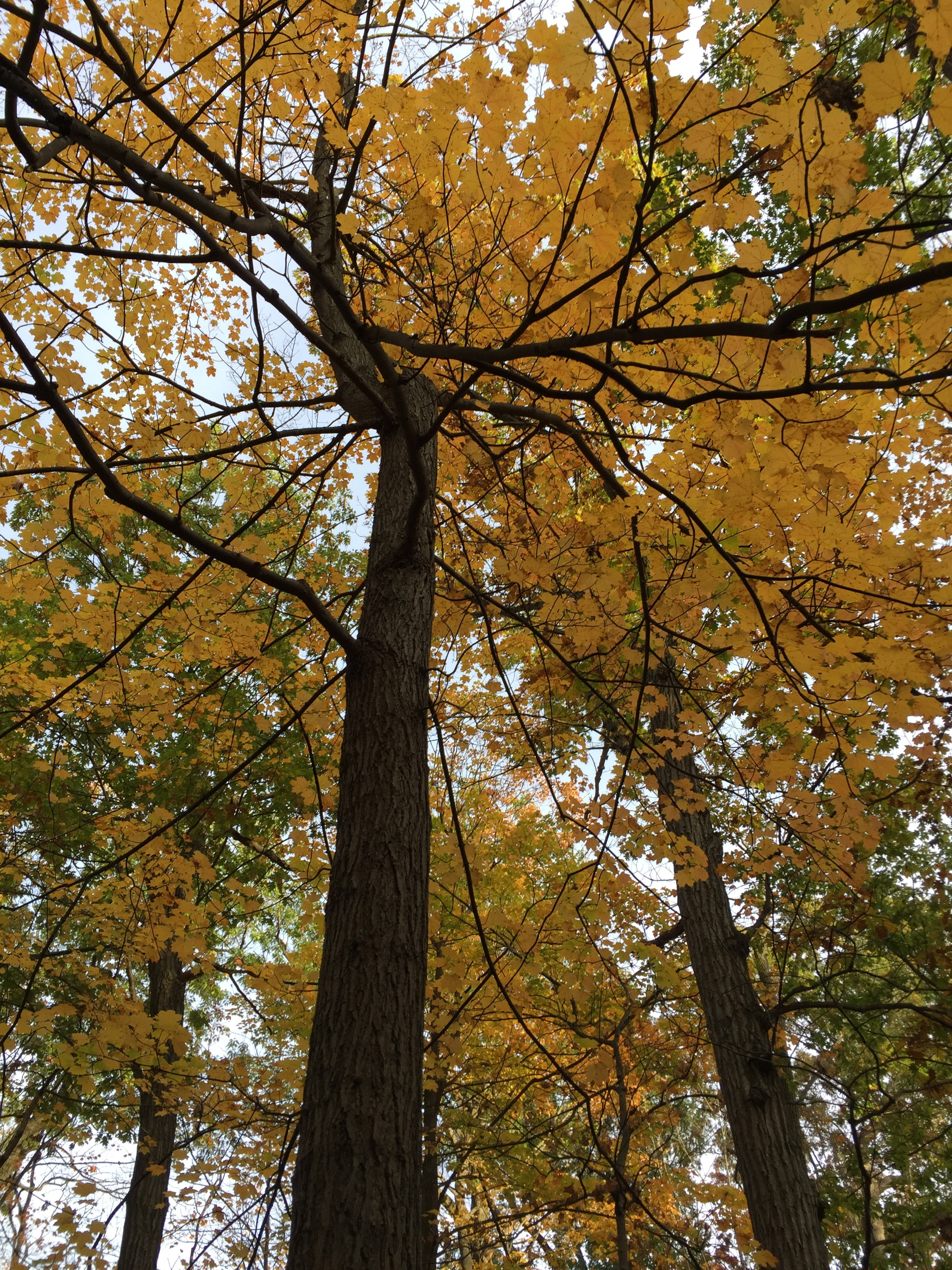 This is a fairly large sugar maple in a ravine.